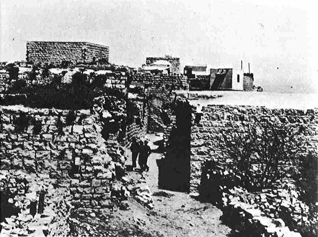 Source: [1]